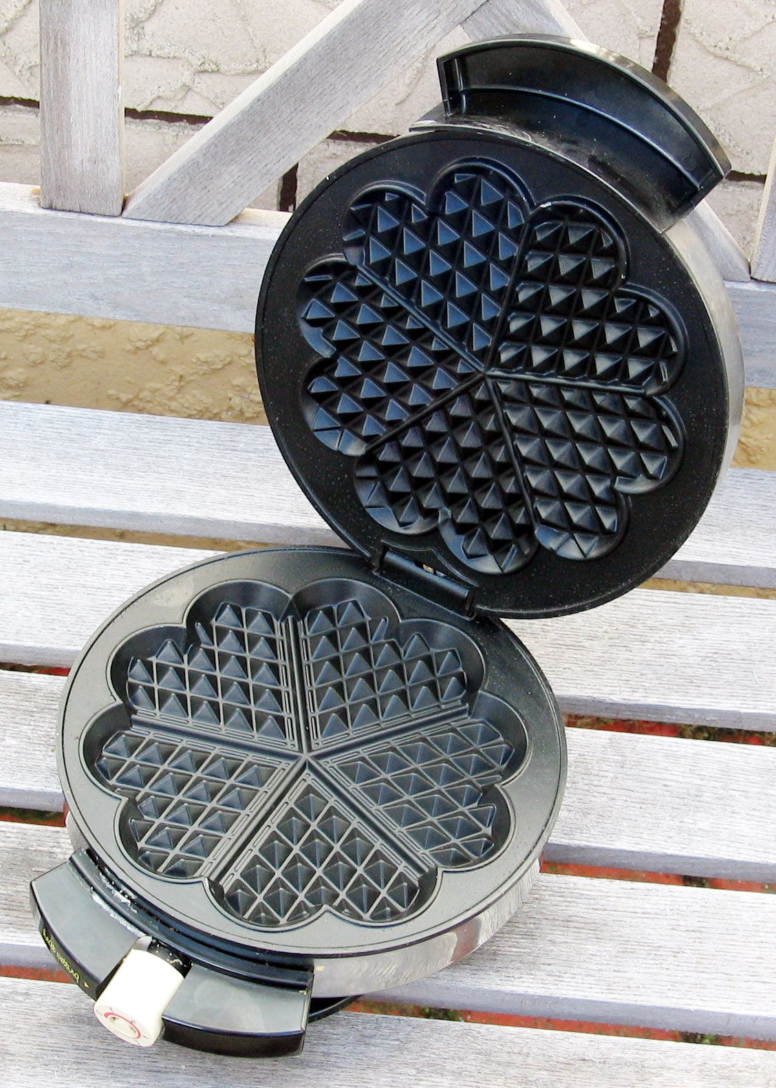 This is an electric waffle maker (also known as a waffle iron).